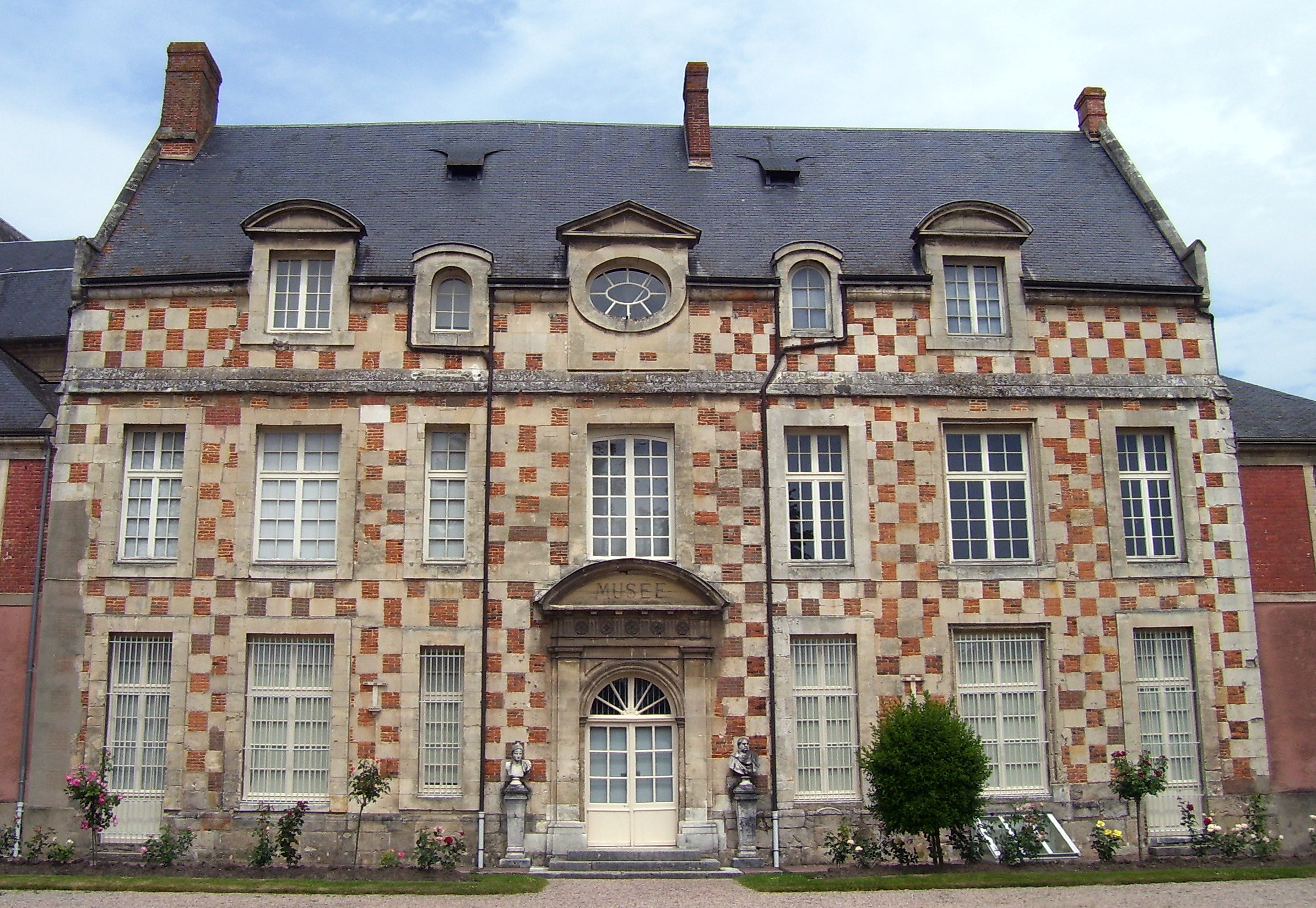 The museum of Bernay (departement Eure, Normandie, France), is situated since 1891 in the former abbey, built at the end of the 16th century.